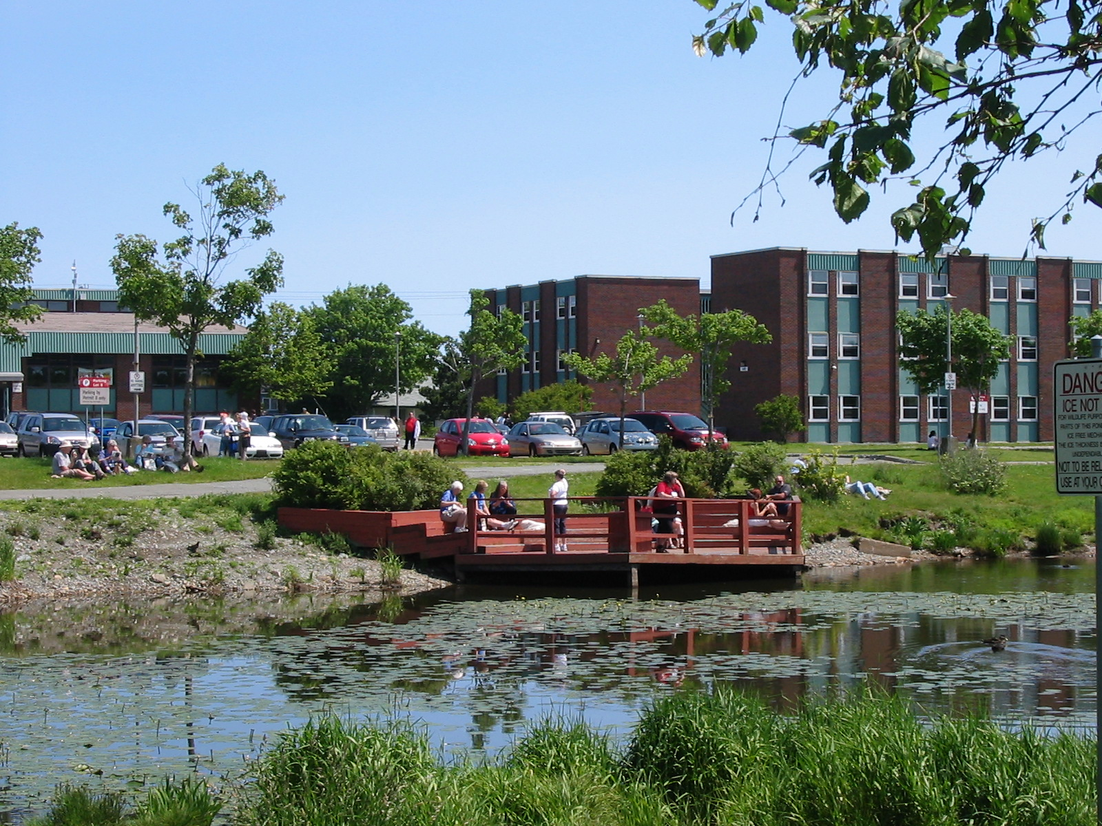 Burton's Pond, Memorial University of Newfoundland